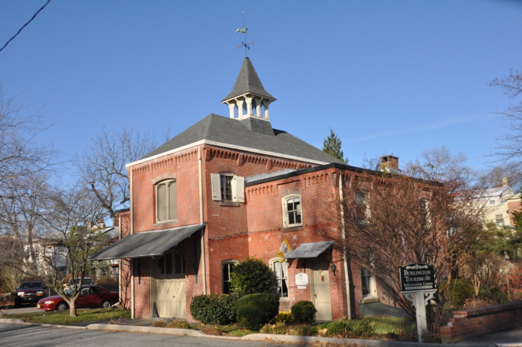 An historic carriage house, now housing the local tourism office, in Burlington, New Jersey, part of the Burlington Historic District.